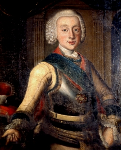 Portrait of Frederick Augustus, Prince of Anhalt-Zerbst (1734-1793)